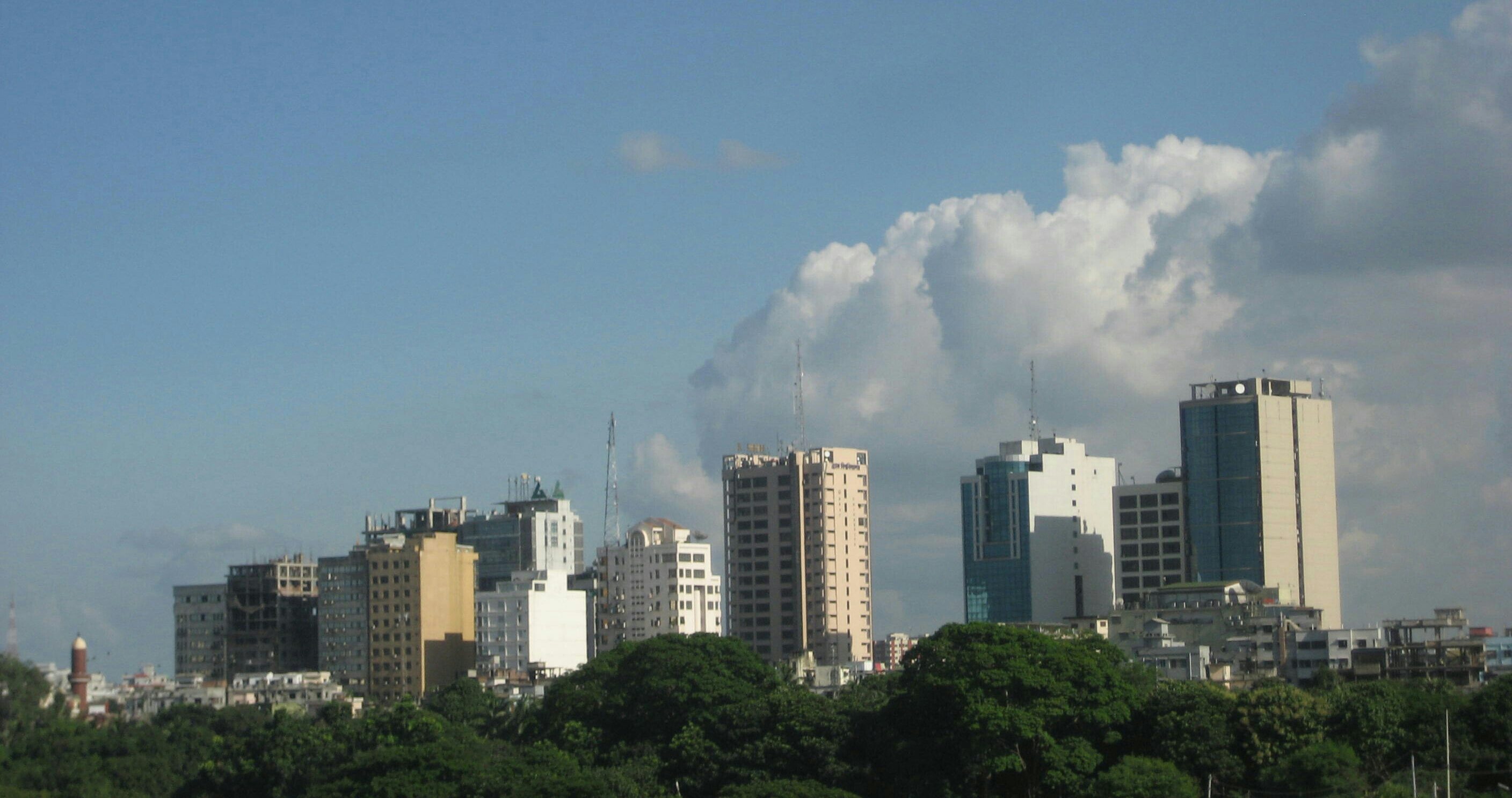 A good view of Dhaka, Bangladesh.